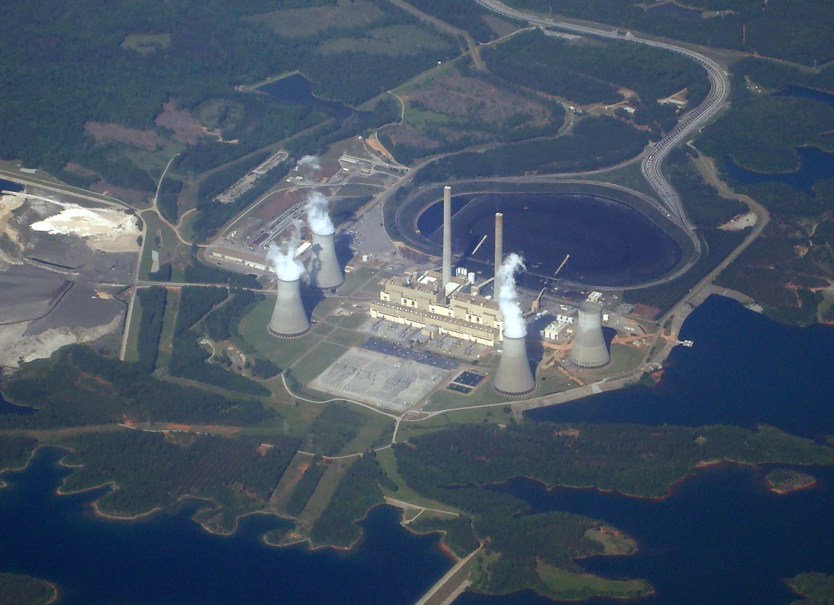 Aerial view of the Robert Scherer power plant north of Macon, Georgia